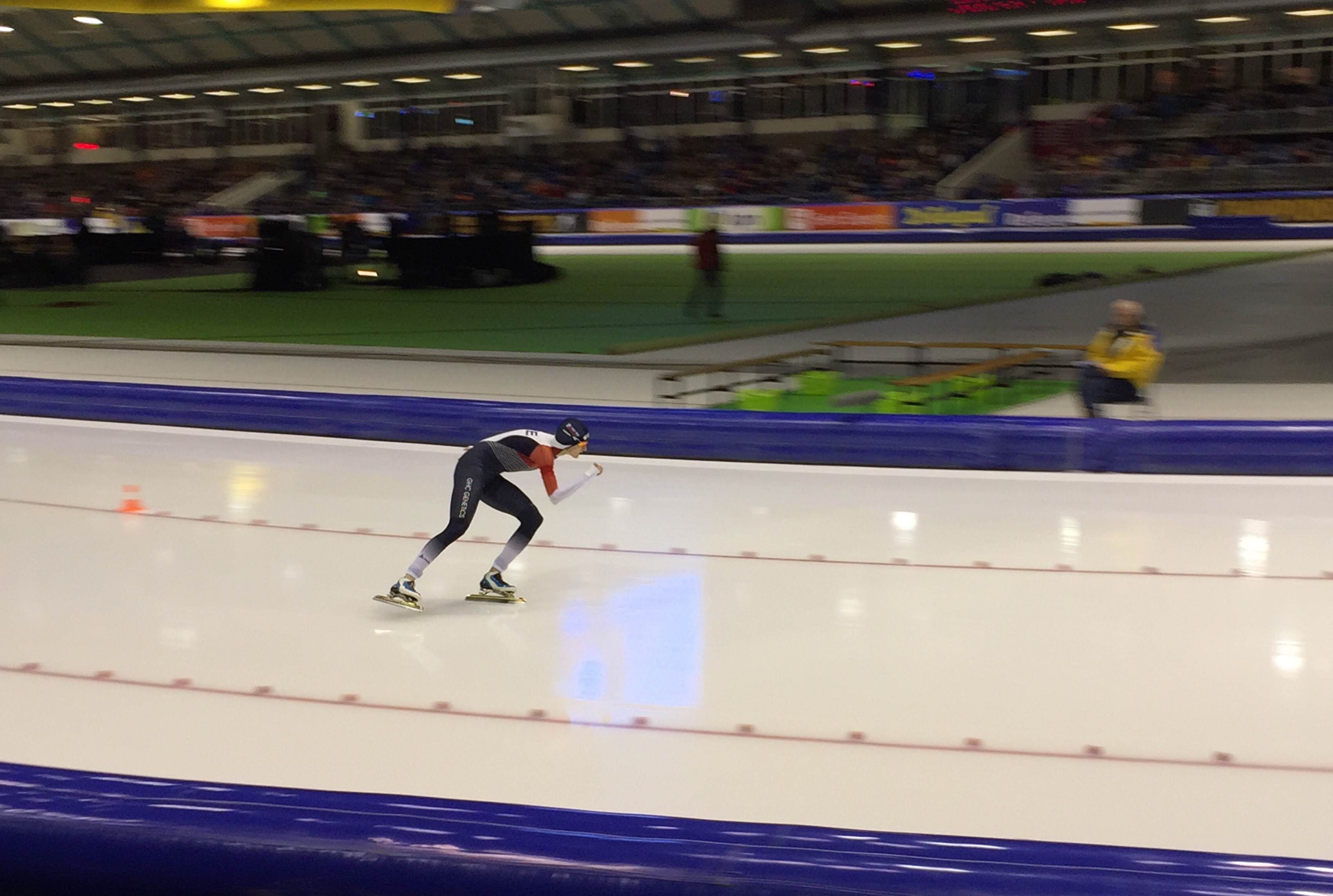 2015 World Single Distance Speed Skating Championships, Women's 5000m (